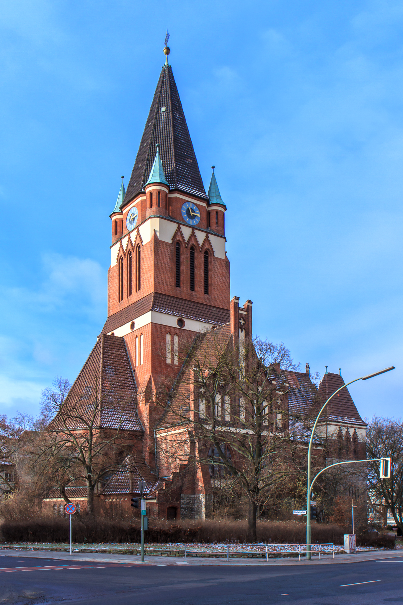 Trinity Church - Berlin-Lankwitz - January 2013